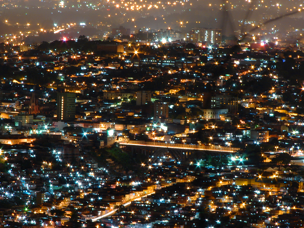 Panorama of San Cristóbal City downtown.